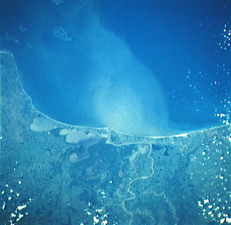 Astronaut Photography of Earth - Papaloapan River